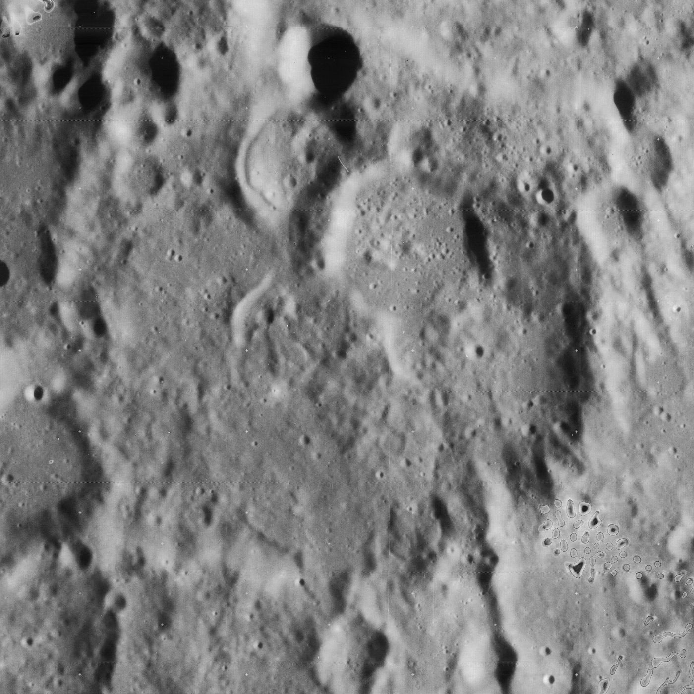 Parrot crater, on the moon. Spots in lower right and upper left corners are blemishes on original image.